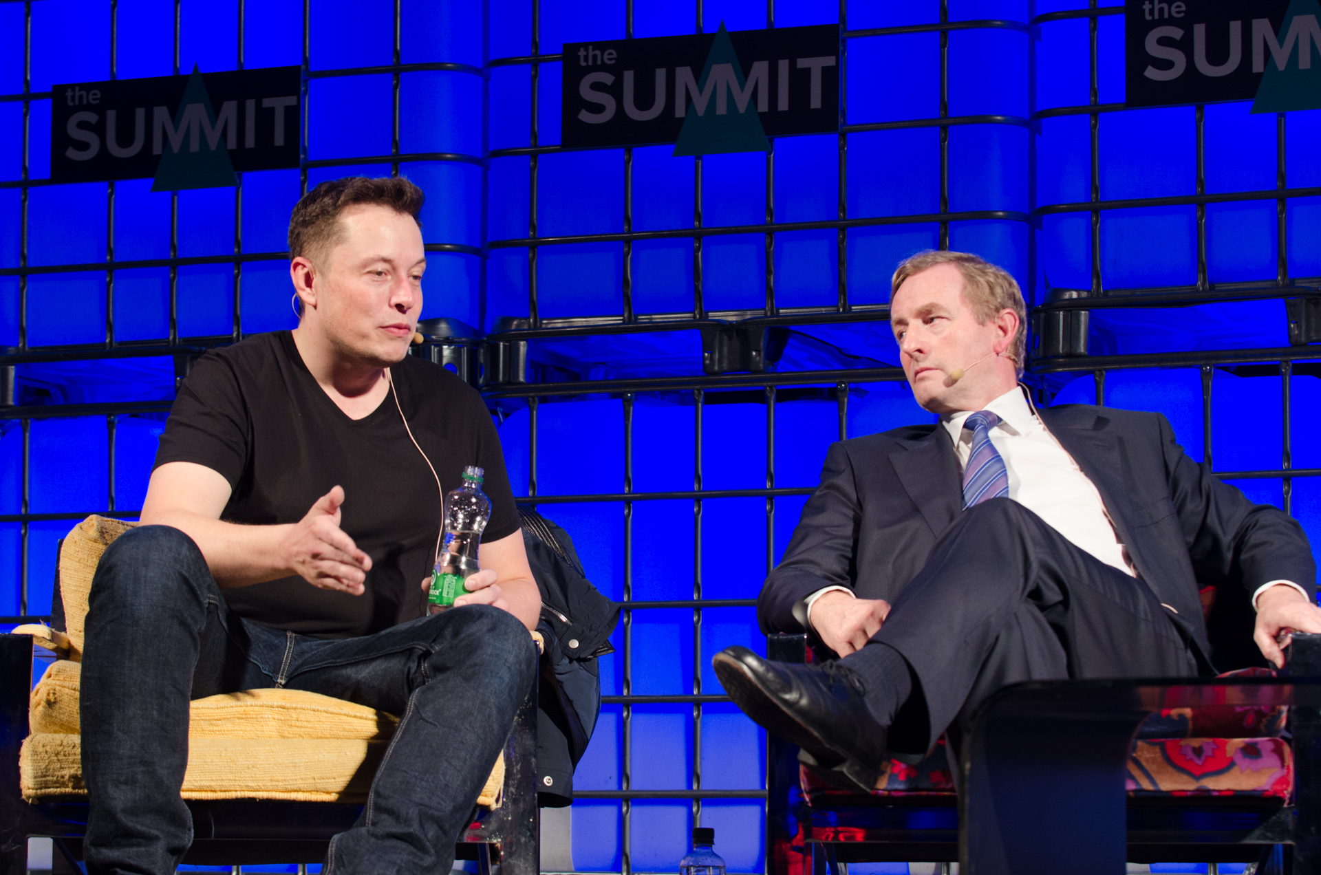 The Summit 2013 - Picture by Dan Taylor / Heisenberg Media